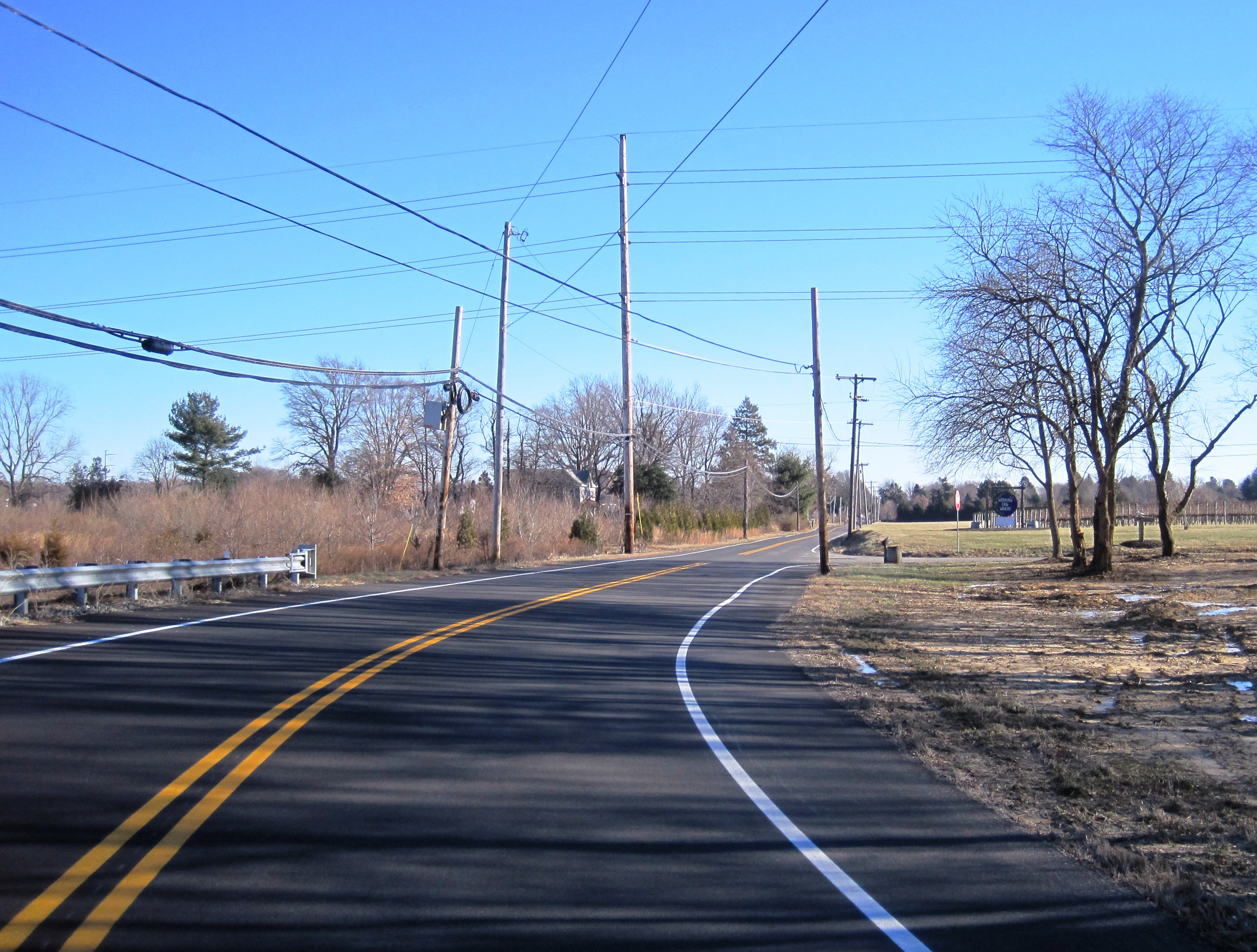 Photo of the unincorporated community of Allens Station, New Jersey located in East Windsor and Robbinsville townships. Location is on Windsor-Perrineville Road just east of Allens Road and is on the East Windsor-Robbinsville township border. The site was formerly the location of Allens Station along the Pemberton and Hightstown Railroad.